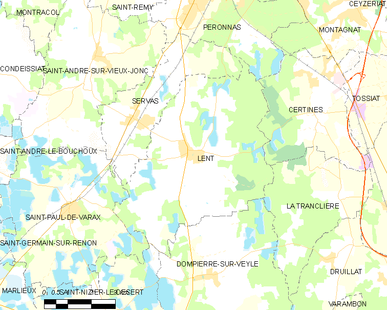 Map of French commune: Lent Map commune FR insee code 01211.png